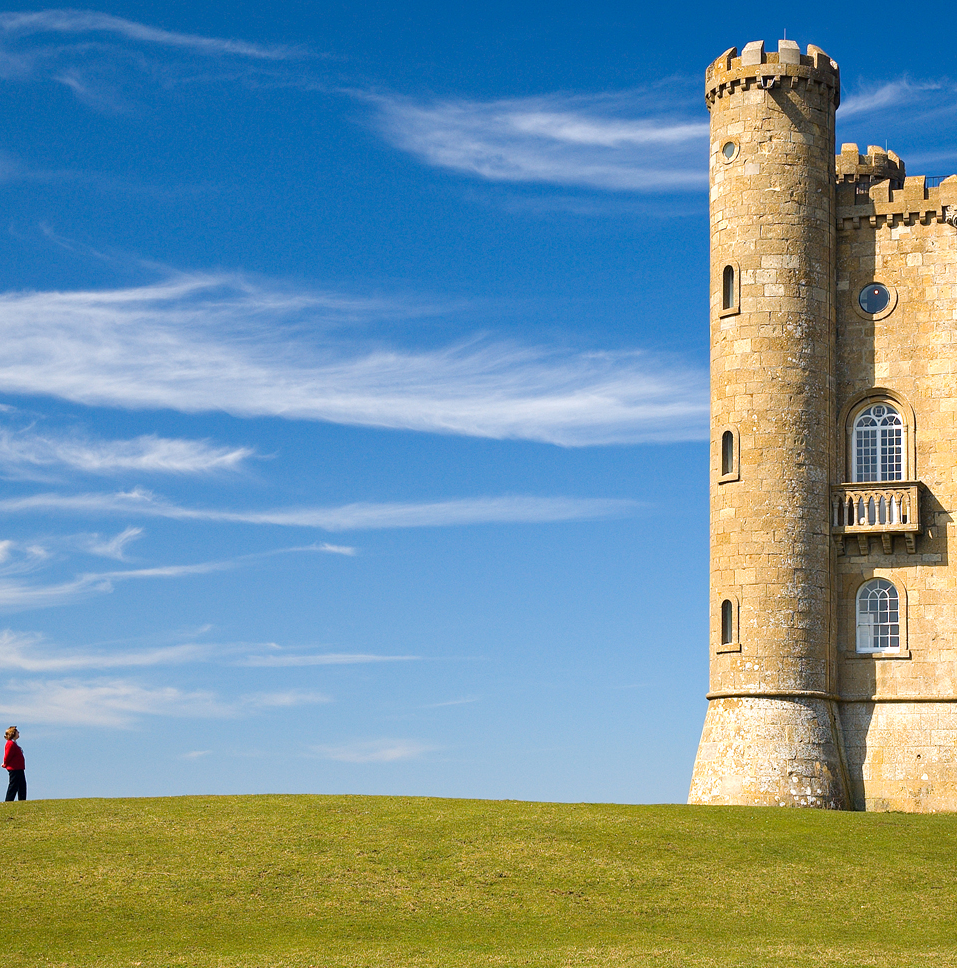 Broadway Tower, Cotswolds, England. Edited version of photo by Newton2, cropped one person from the left.